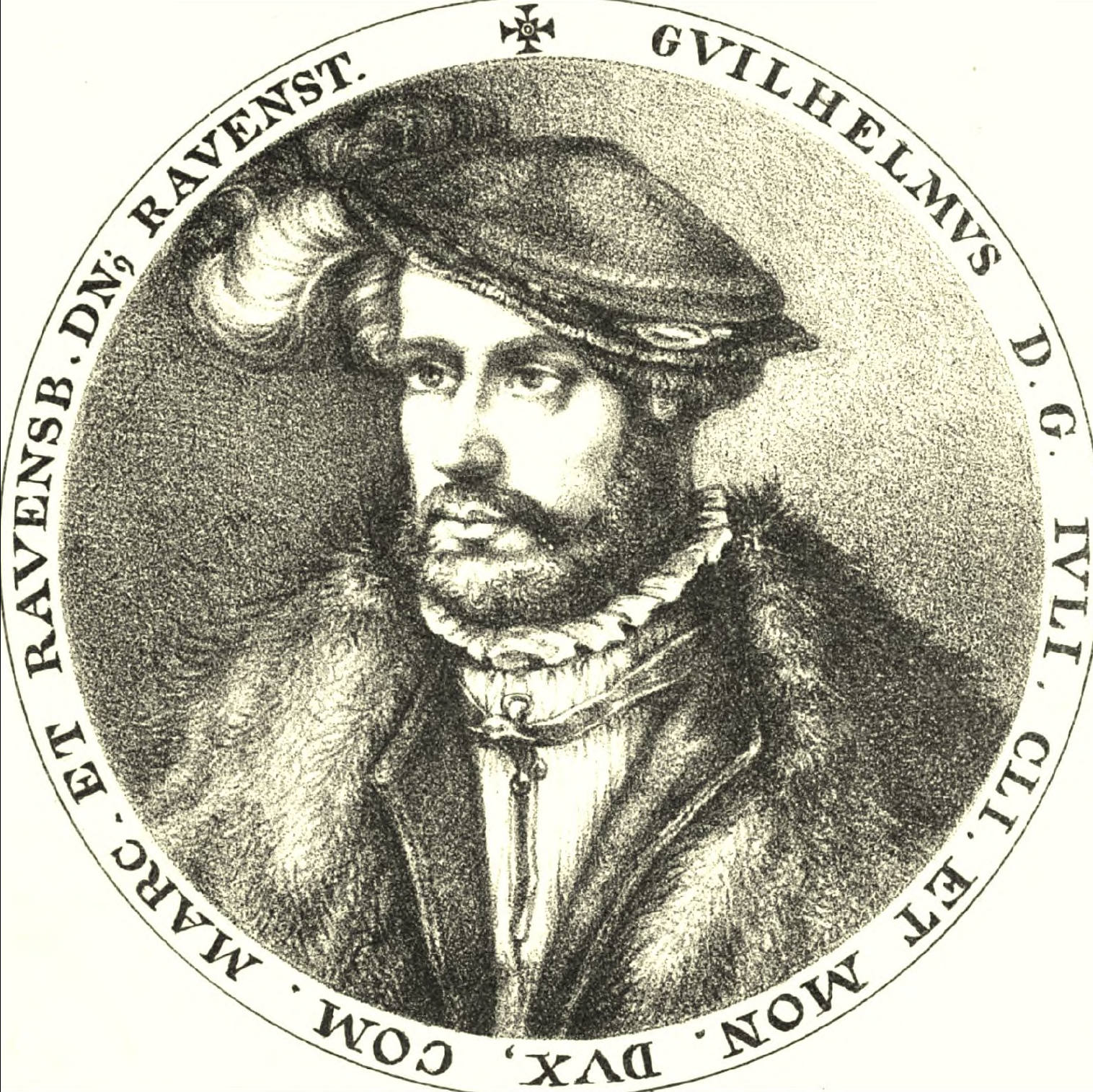 Image shows Wilhelm IV. (1455-1511) Duke of Jülich and Graf of Ravensberg.